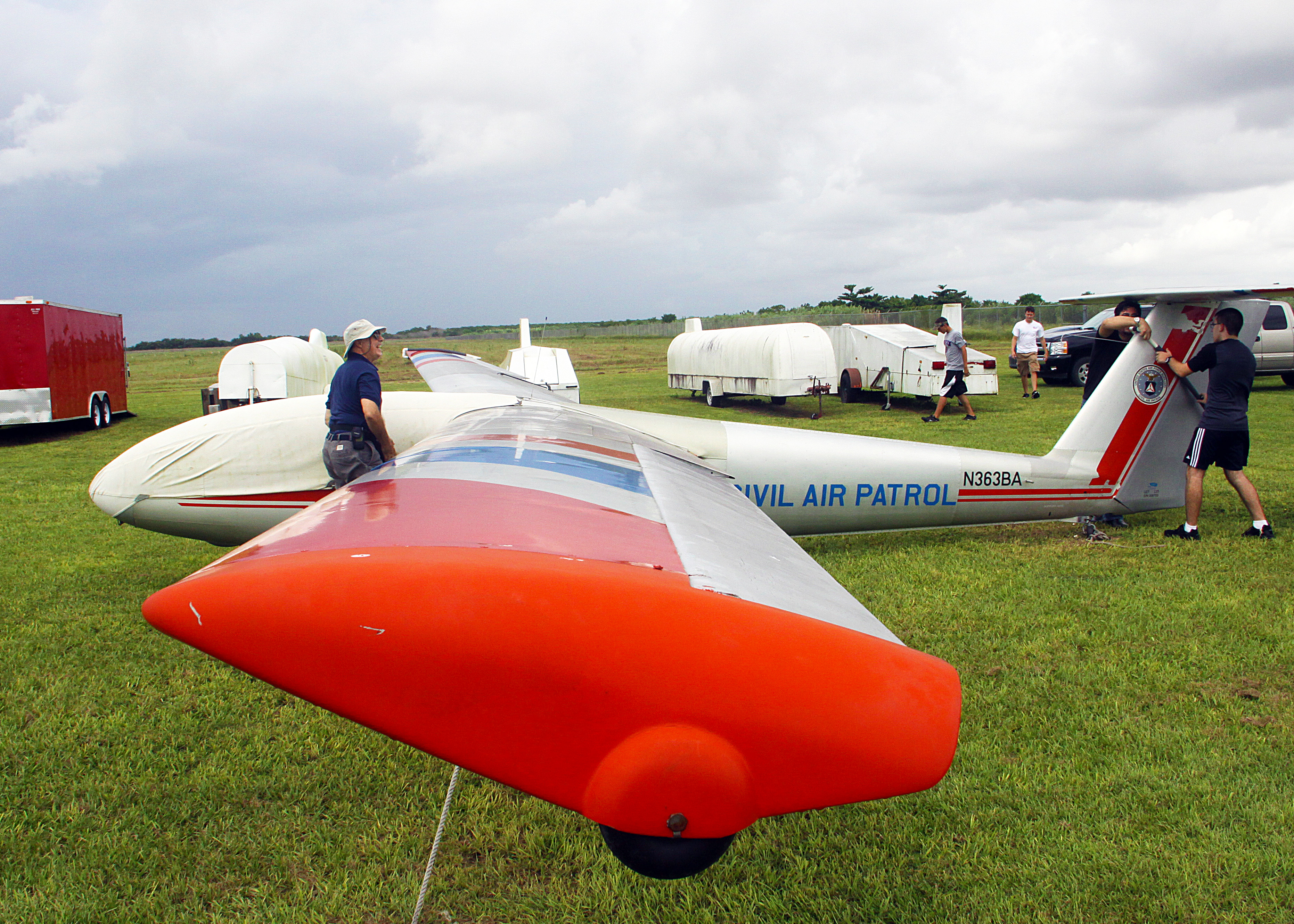 Civil Air Patrol members prepare a Let L-23 Super Blanik glider for flight at Homestead General Aviation Airport FAA Registry